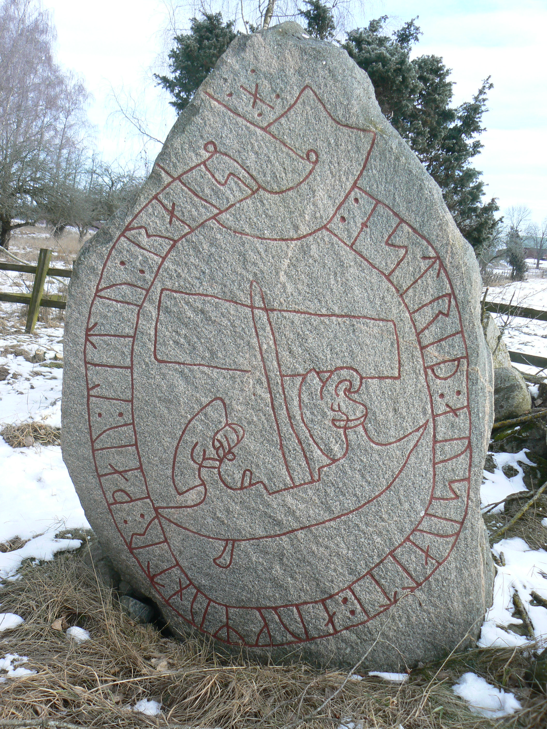 Östergötlands runinskrifter 224, runestone outside Linghem, Östergötland. South side.